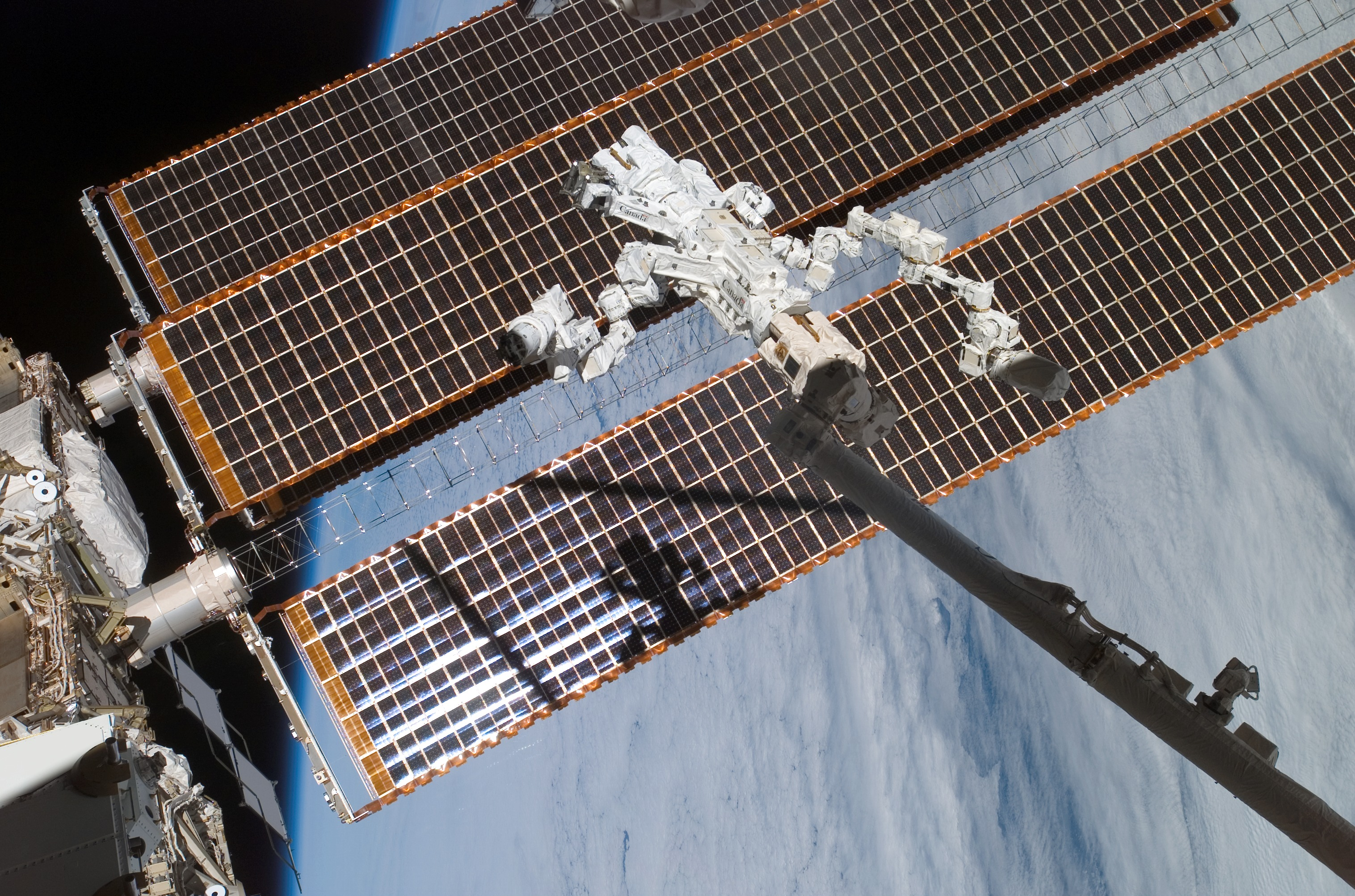 In the grasp of the station's robotic Canadarm2, Dextre, also known as the Special Purpose Dextrous Manipulator (SPDM), is featured in this image photographed by a crewmember on the International Space Station while Space Shuttle Endeavour is docked with the station. A section of a solar array wing and a cloud-covered part of Earth provide the backdrop for the scene.